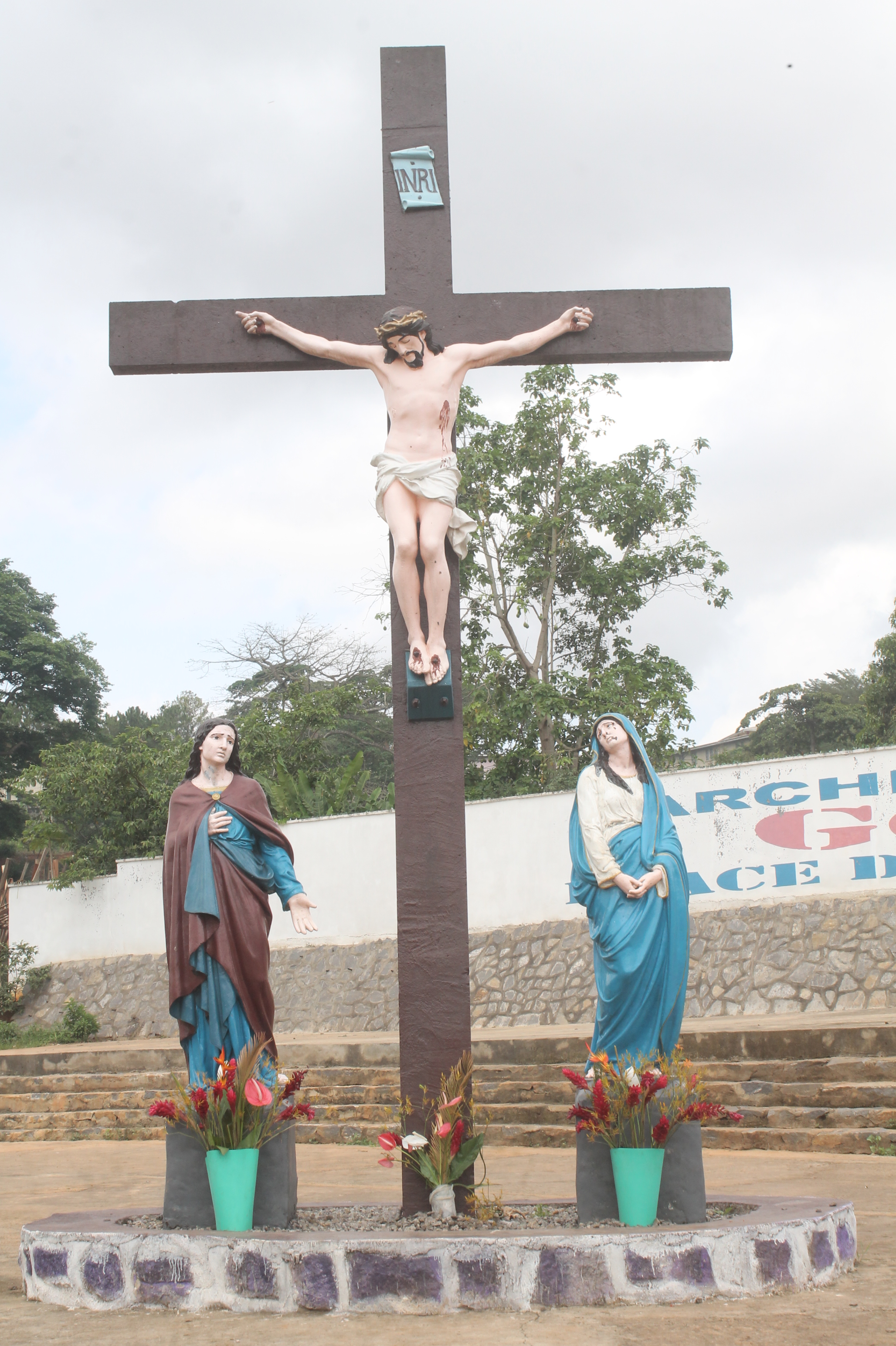 trois statuts